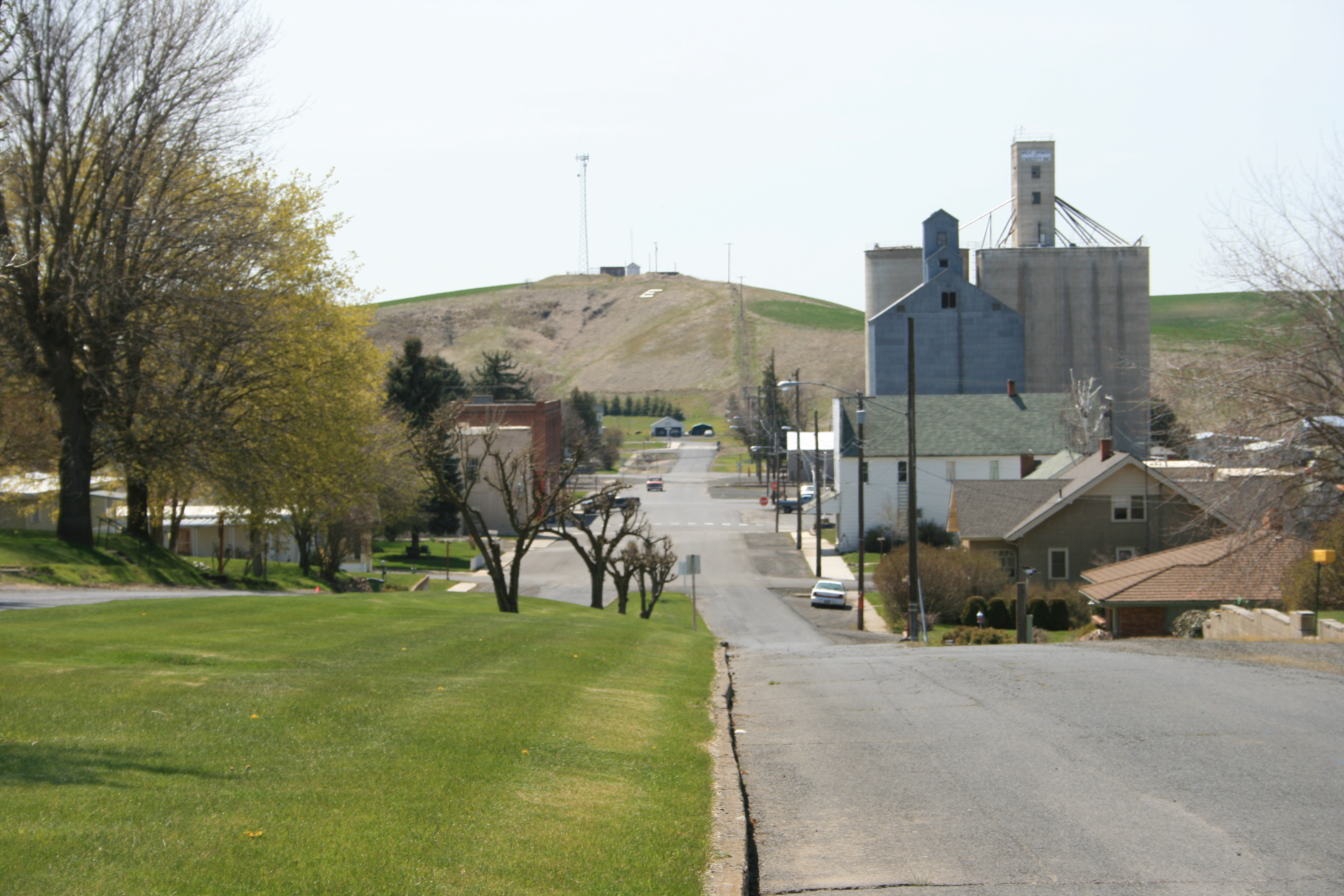 Photo of Endicott, Washington taken by uploader in 2008.